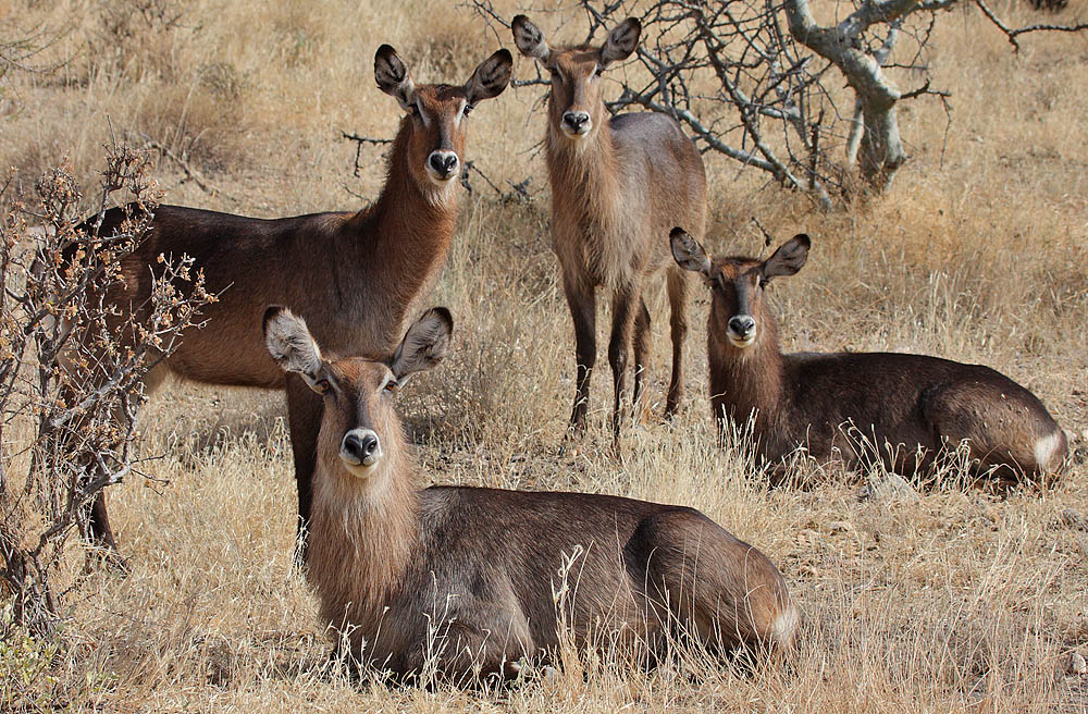 Image taken in Samburu N.P., Kenya. This subspecies is found to the east of the Rift Valley with Defassa Waterbuck being found to the west of the Rift Valley.